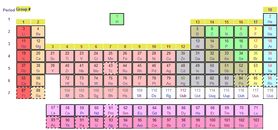 Periodic table, the position of Hydrogen is as proposed by IUPAC here